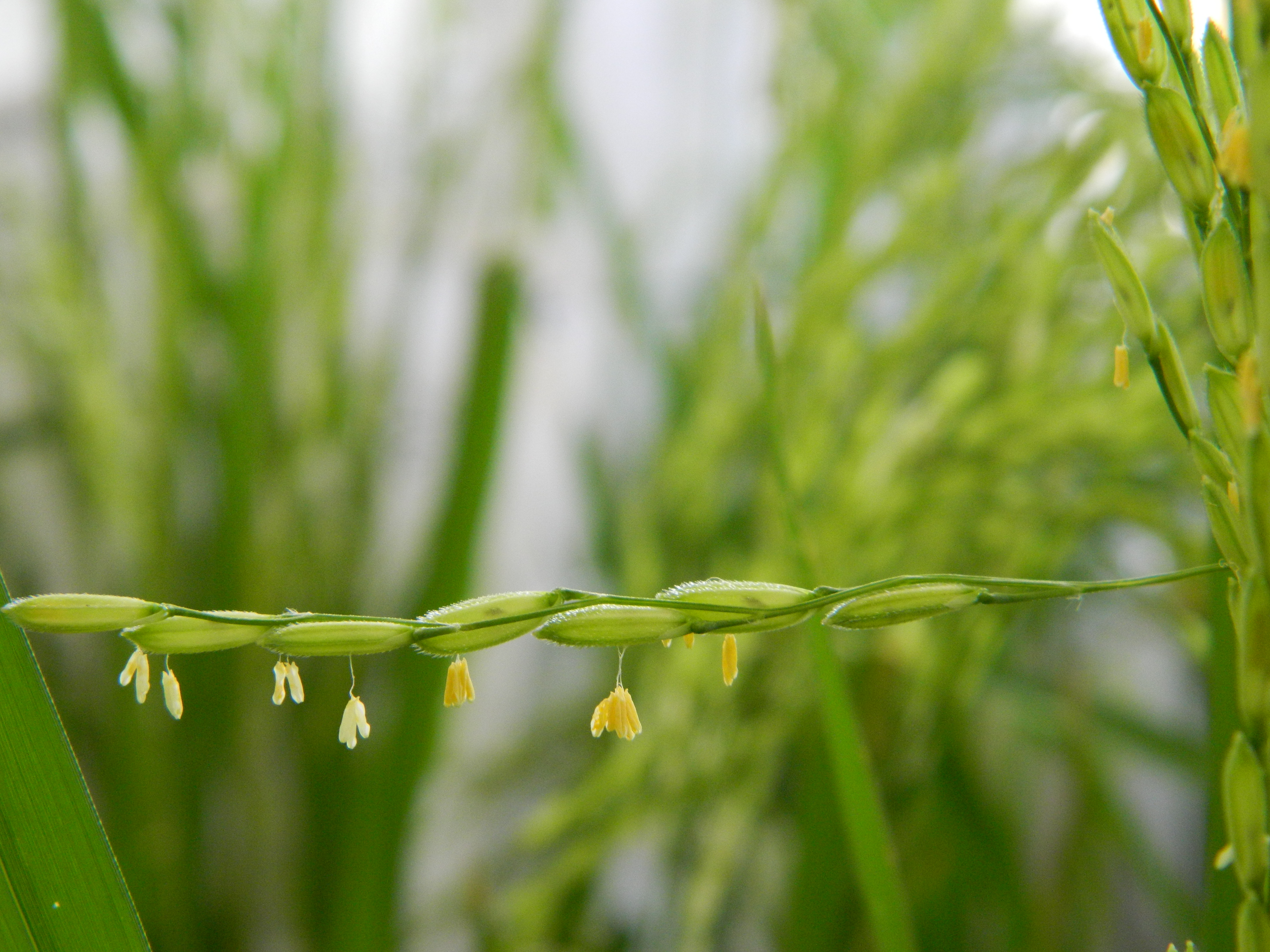 Oryza sativa (Grain of life